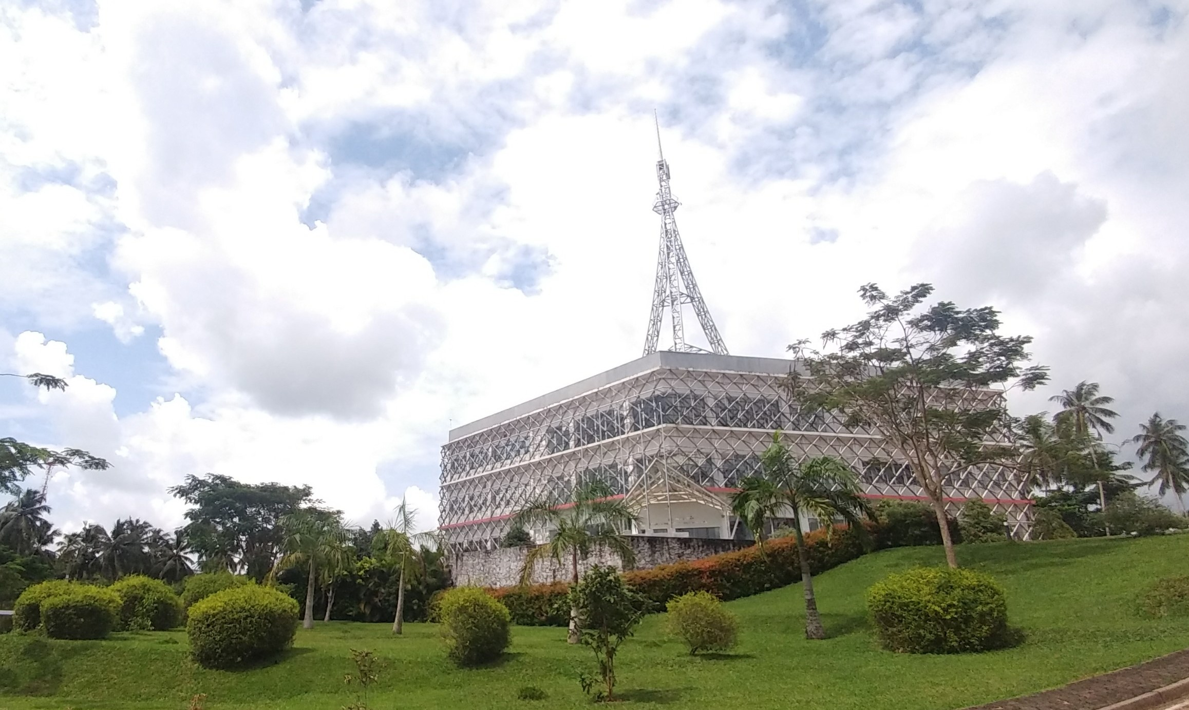 A photo of the Sri Lanka Institute of Nanotechnology/Nanotechnology Centre for Excellence in Homagama, Sri Lanka